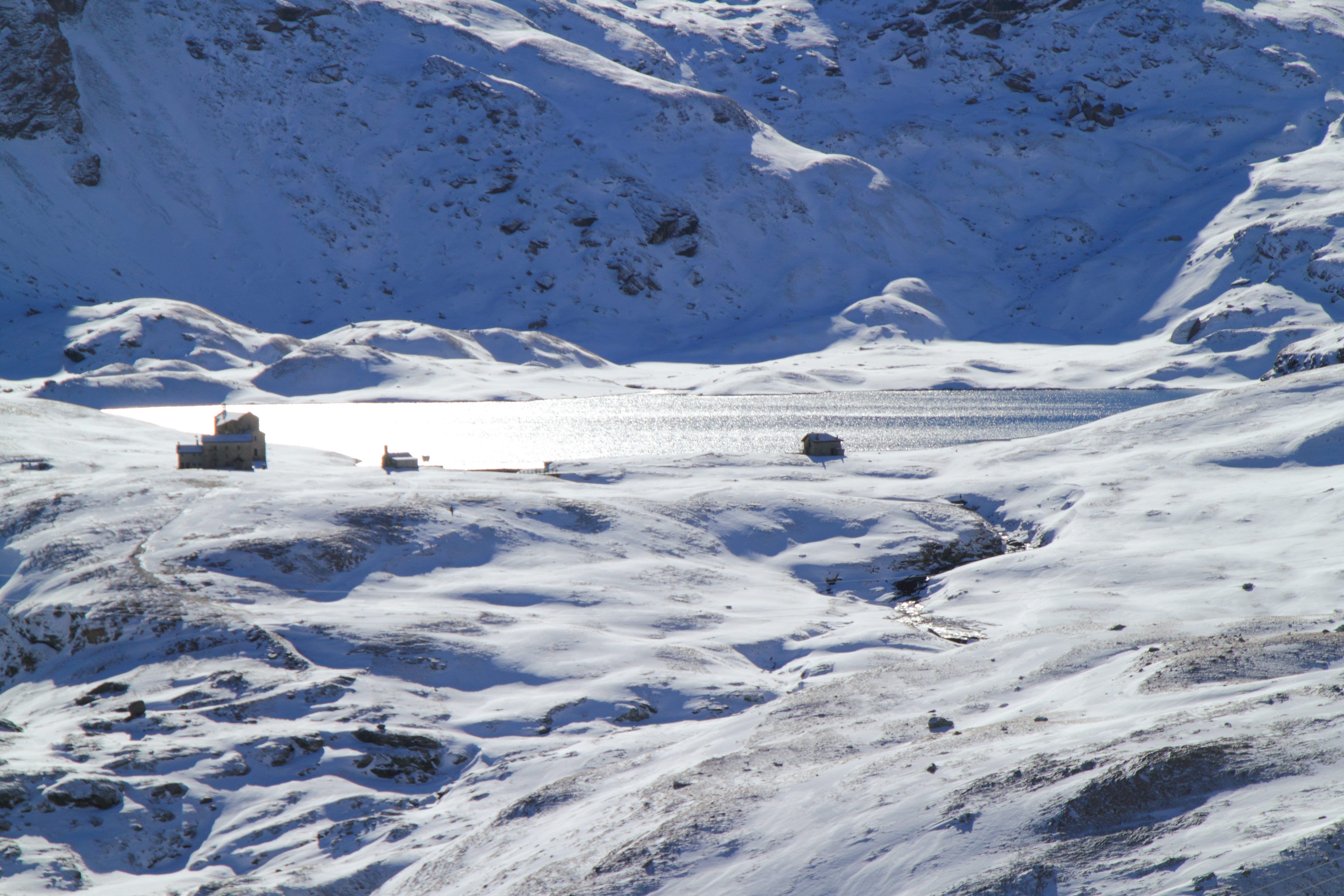 I took this one from footpath # 8 leading to the Col Pontonnet